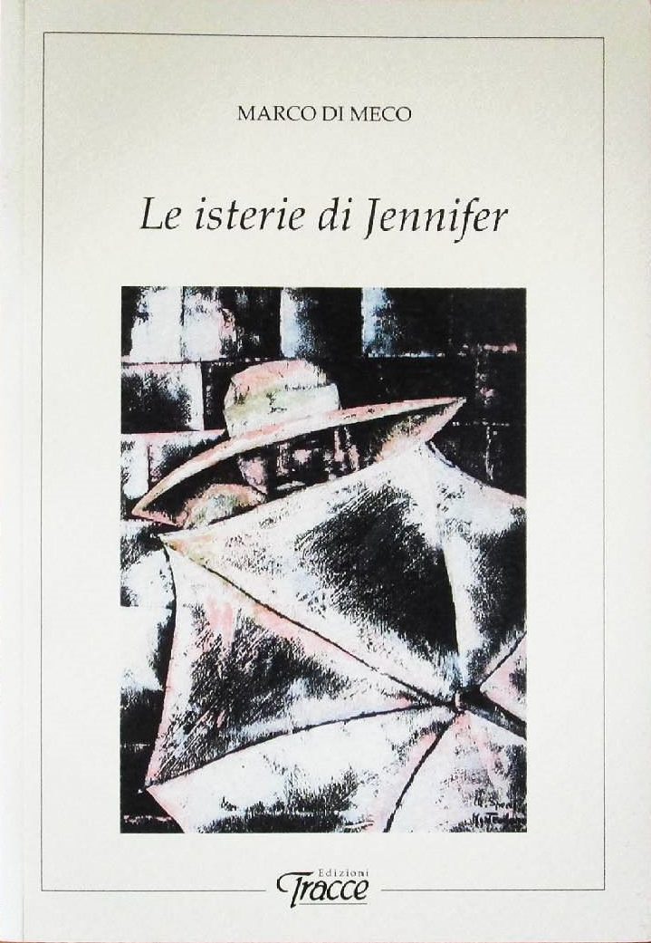 Cover image for the book "Le Isterie di Jennifer" by Marco Di Meco